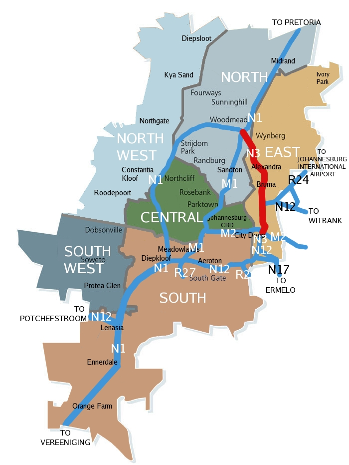 Map of Johannesburg with road and region markings. N3 Eastern Bypass marked in red.